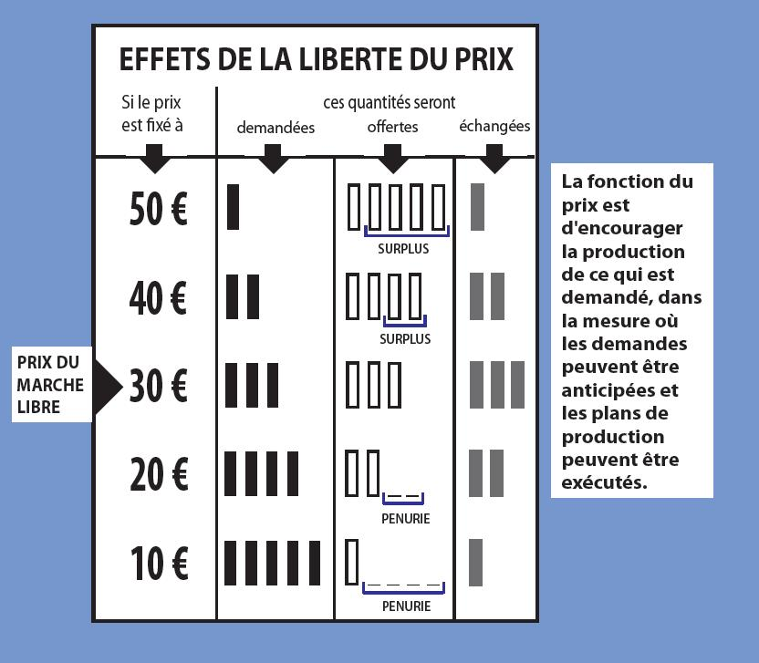 A diagram presenting the argument for free prices, translated in French.